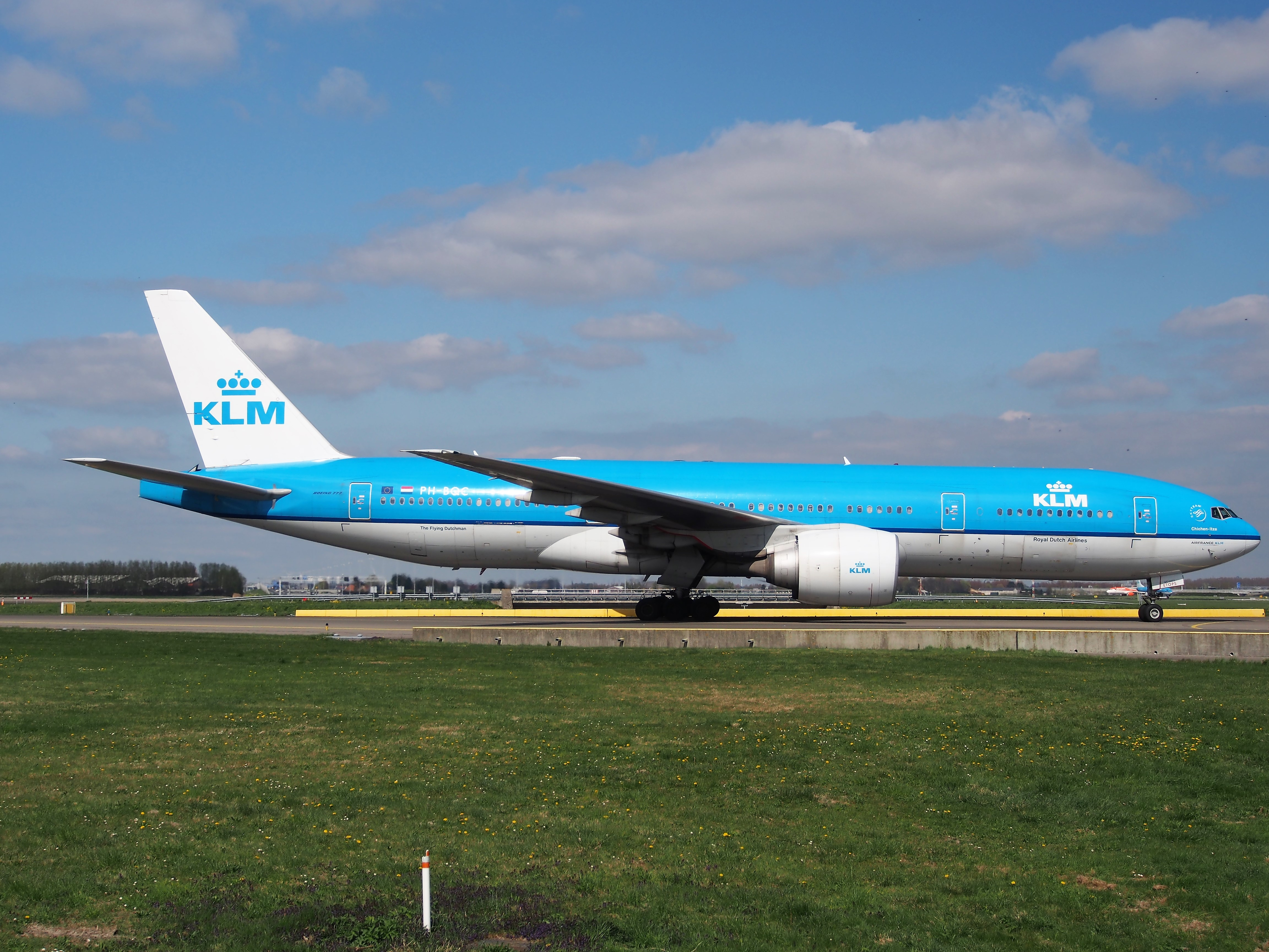 Photographed at Schiphol, Amsterdam airport, (IATA: AMS, ICAO: EHAM), the Netherlands.